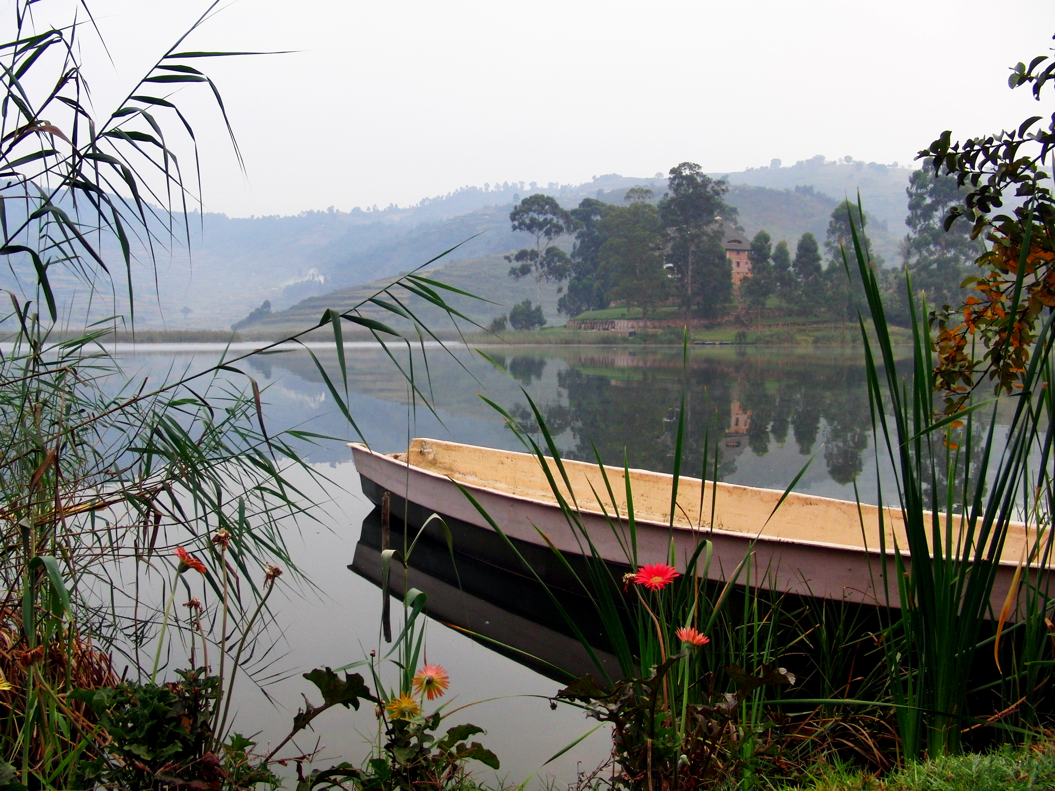 Boat in Lake Bunyony, South Uganda.